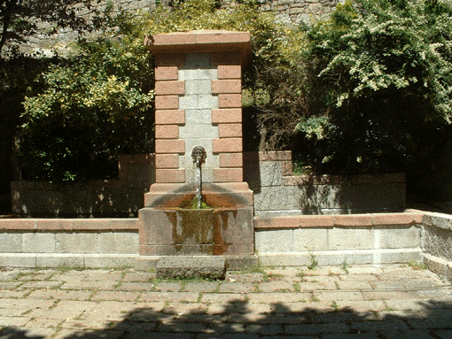 Public fountain of Cristinacce village